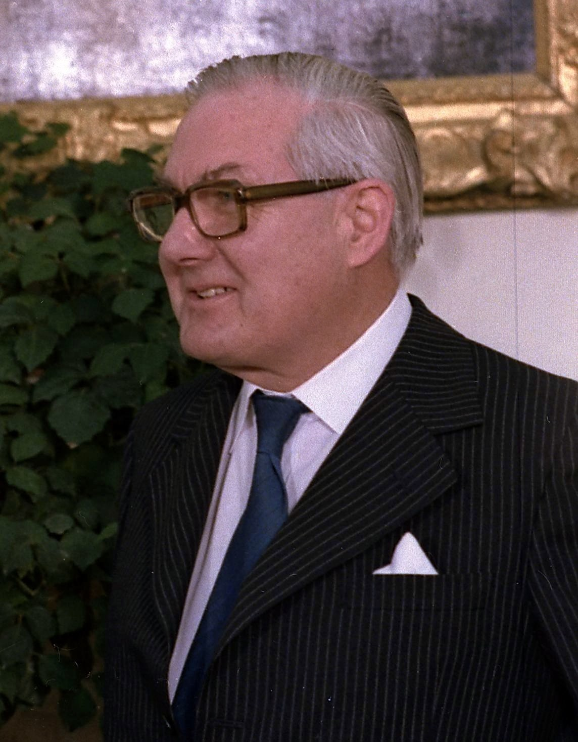 James Callaghan, Prime Minister of the United Kingdom, 03/23/1978 NLC-WHSP-C-04831-20 Jimmy Carter Library (NLJC)